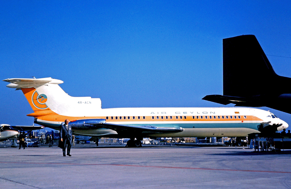 Hawker Siddeley HS.121 Trident 1E-140 4R-ACN of Air Ceylon at Le Bourget Airport Paris in 1969